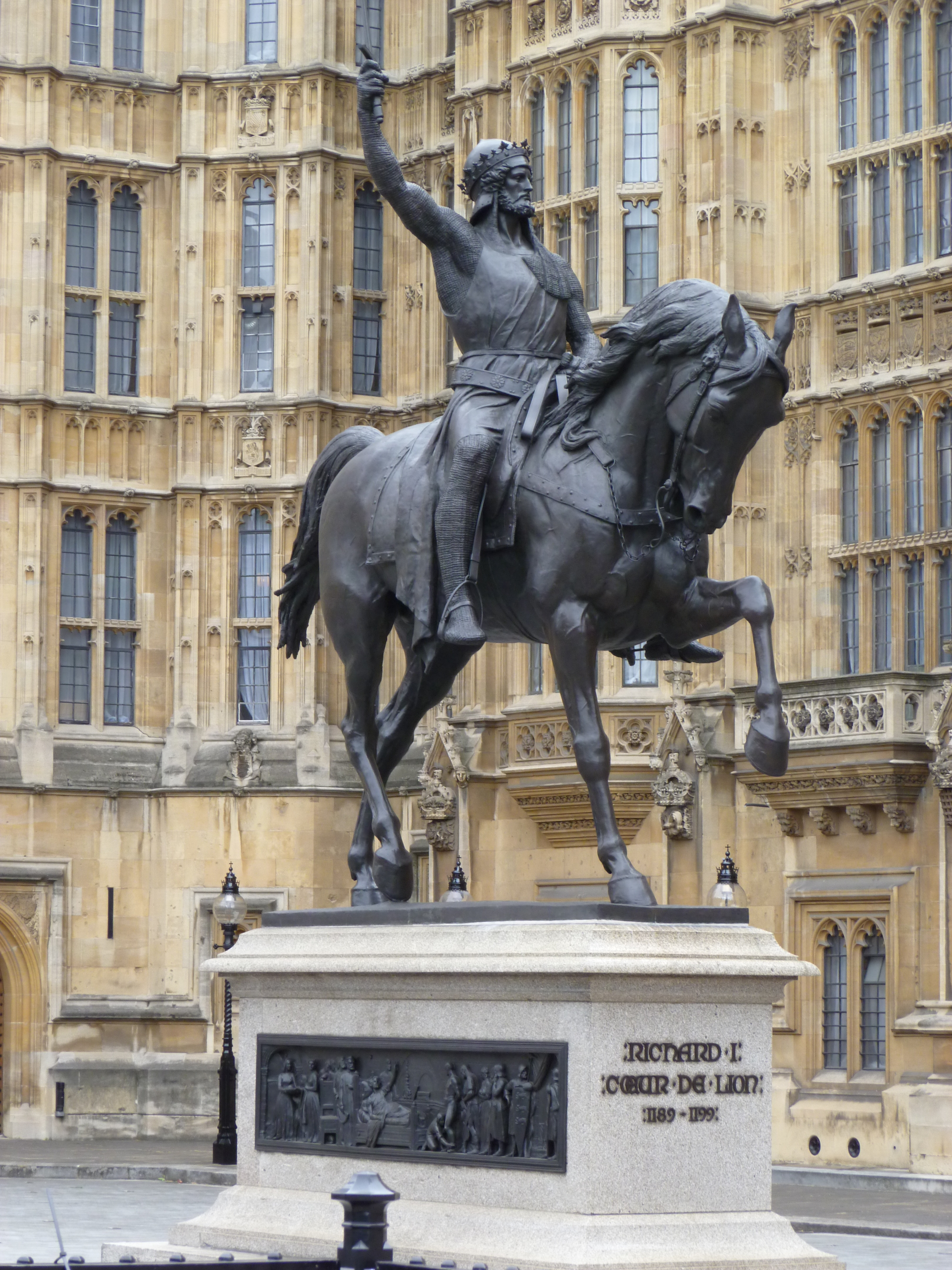 An equestrian statue of Richard I of England, located outside of Parliament in London, England.